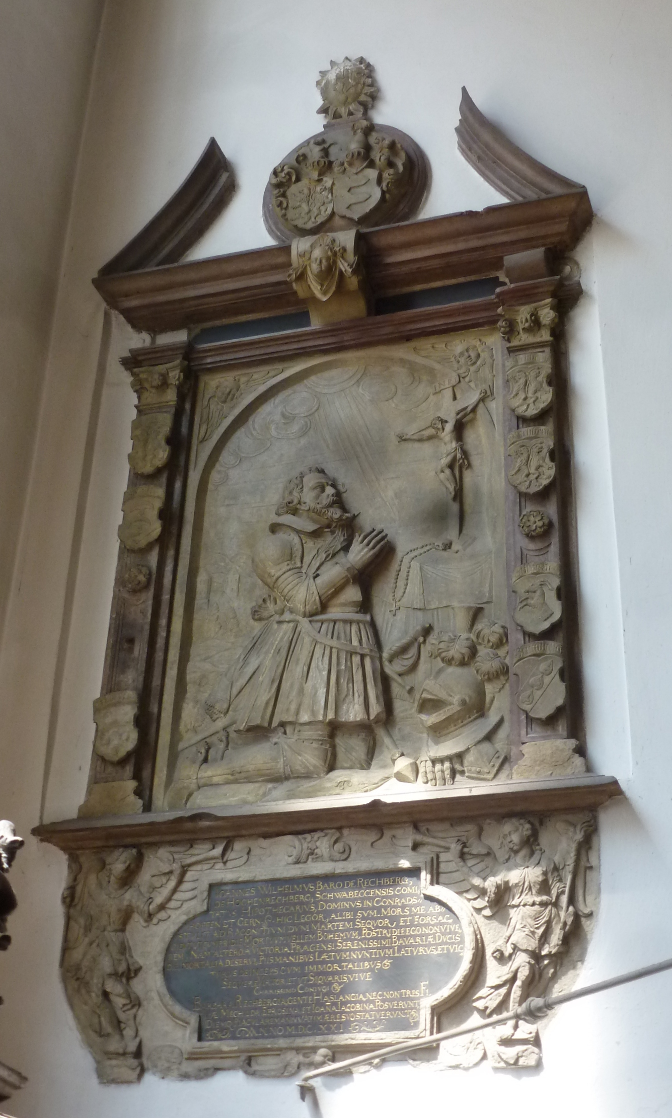 Munich, St.Peter, epitaph for Johannes Wilhelm von Rechberg von Hohenrechberg, red marble and limestone, 325x154 cm, 17th century